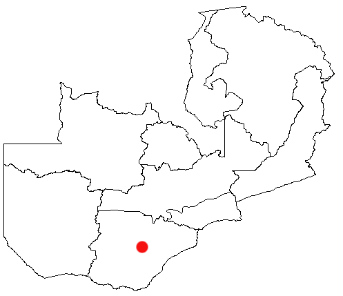 Choma, Zambia Location Map